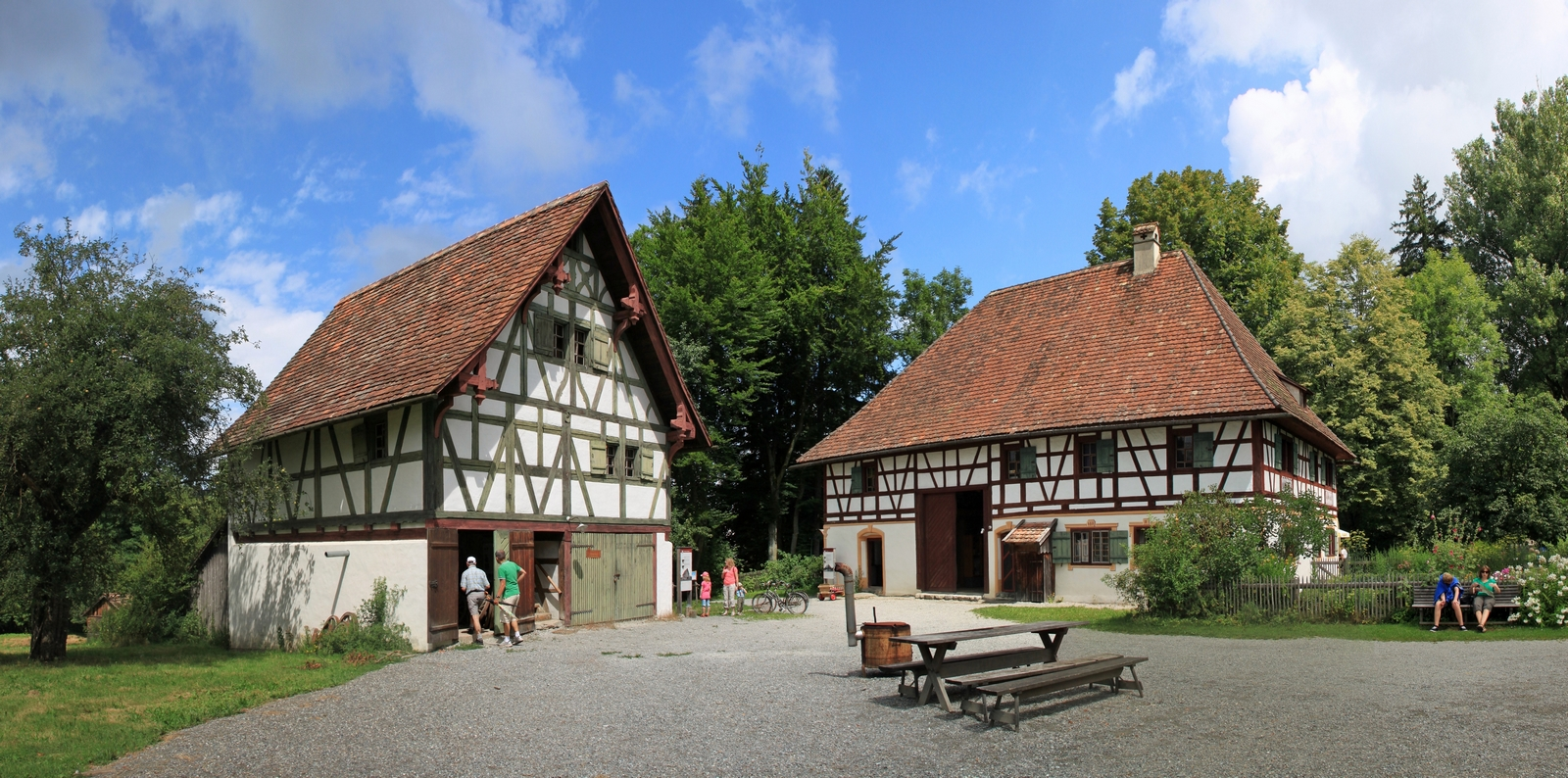 The Farmhouse Museum in Wolfegg in the Southeast of Baden-Württemberg shows historic agricultural technology and crafts. 15 historic buildings from Upper Swabia and the West Allgäu regions were translocated to the open-air museum grounds.